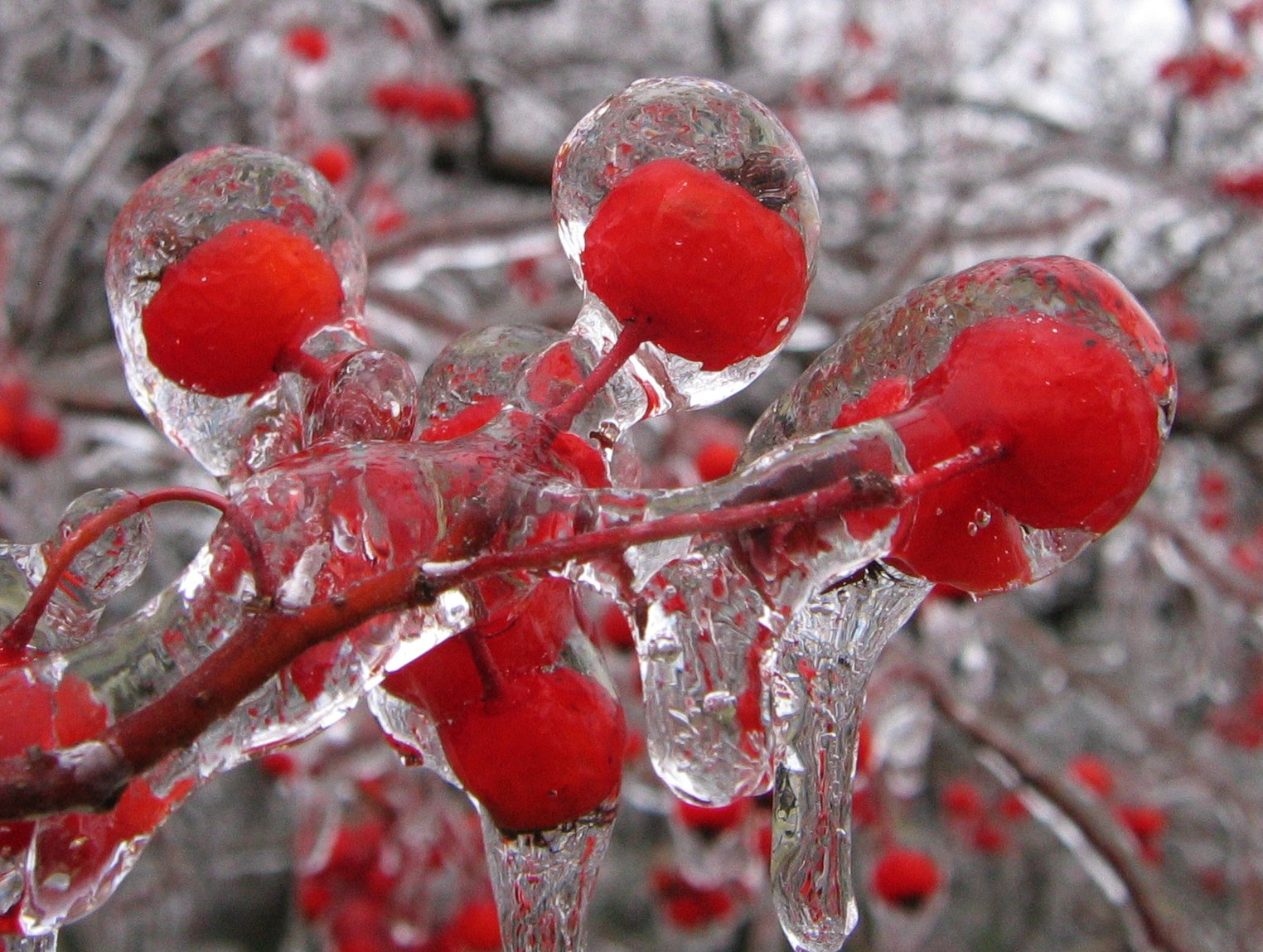 Ice glaze on crabapple